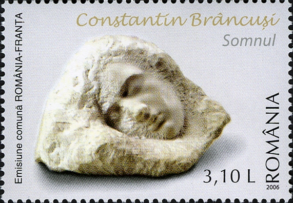 Stamps of Romania, 2006